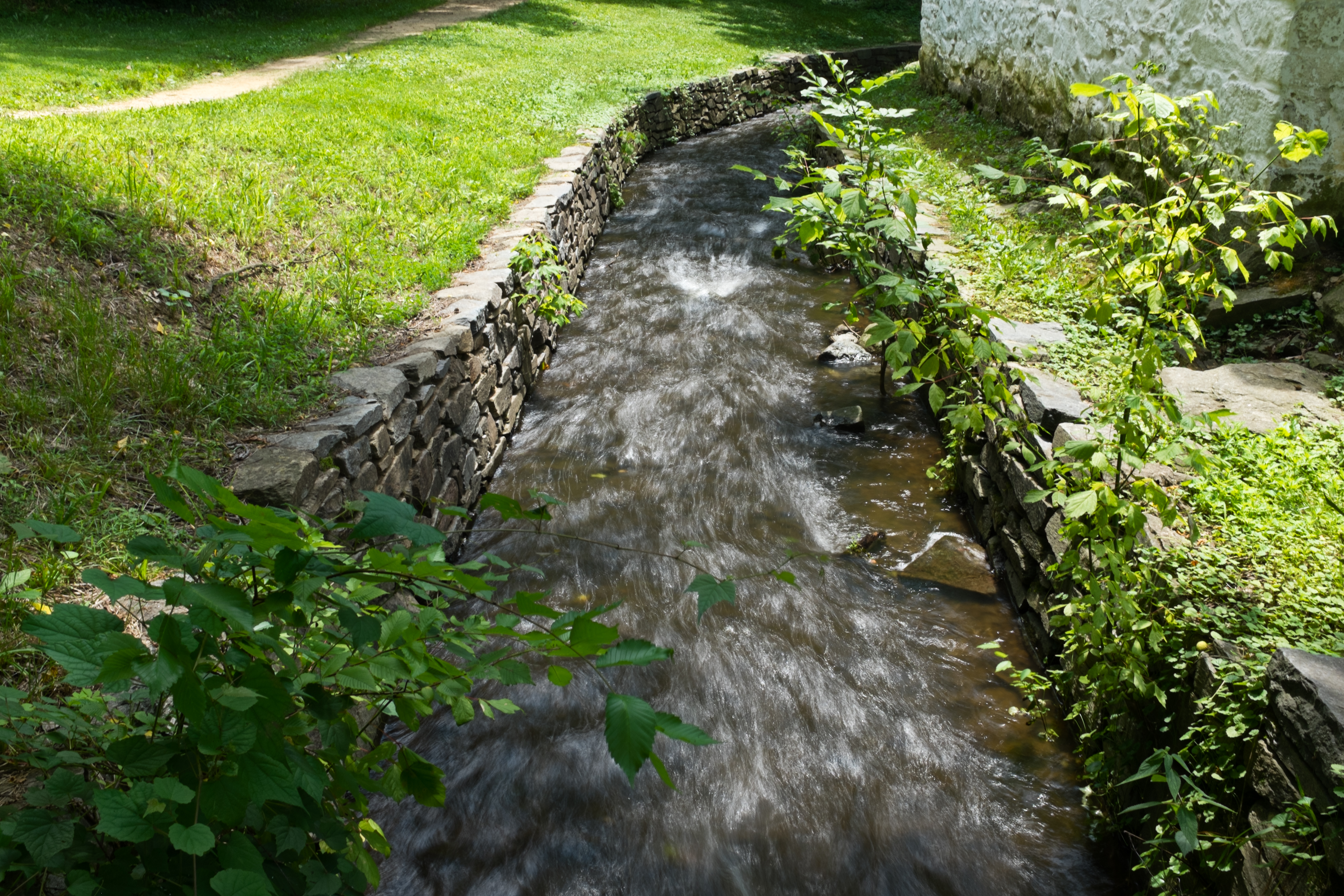 The bypass flume (flowing behind the lockkeeper's house) on Lock 7, on the Chesapeake and Ohio Canal, at 7 miles on the towpath. The bypass flume allows water to bypass the lock and fill the level (pound) below the lock. Without this, the boats below tend to bottom out because of lack of water.